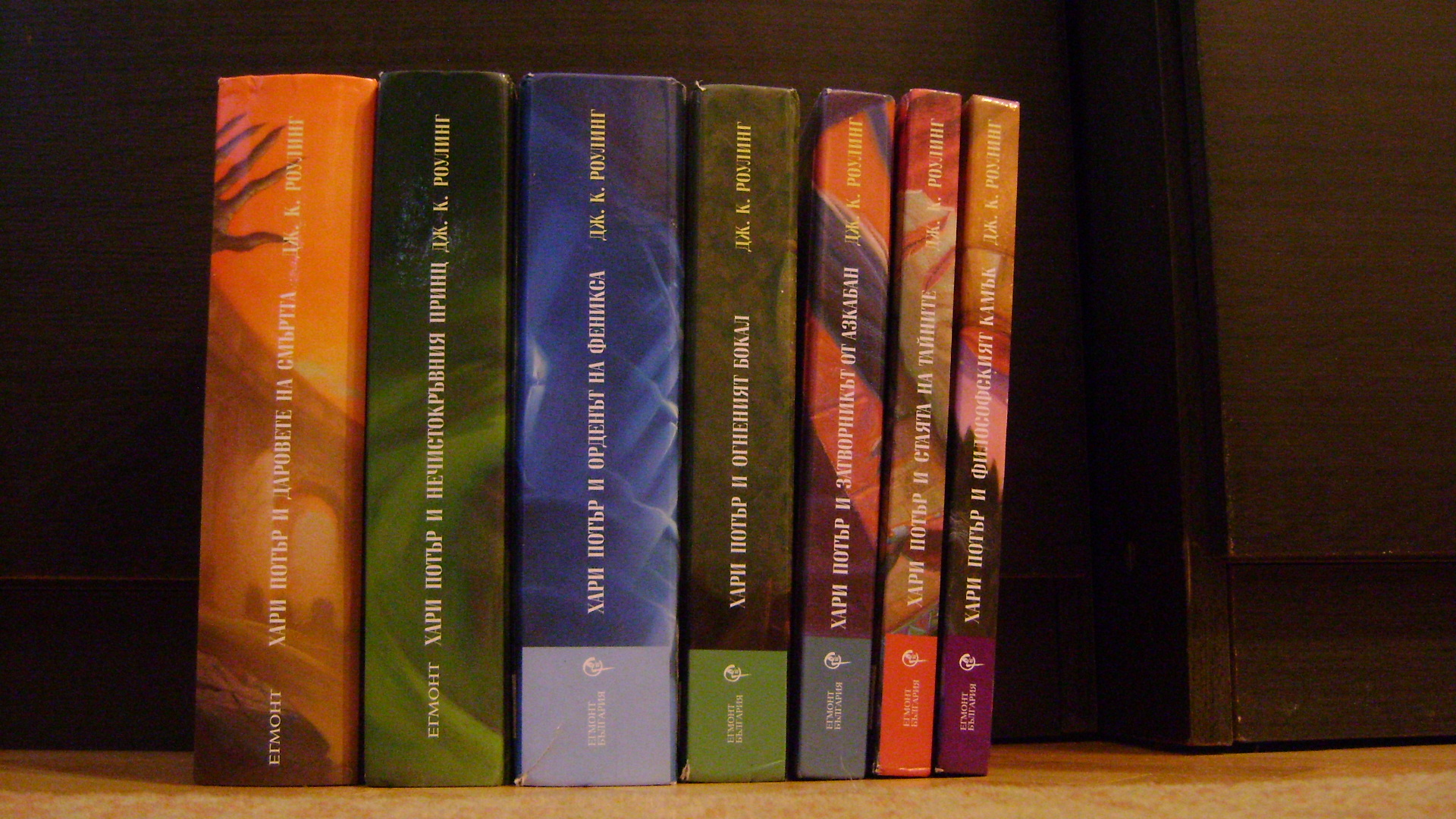 Harry Potter Books Complete Set BG Edition